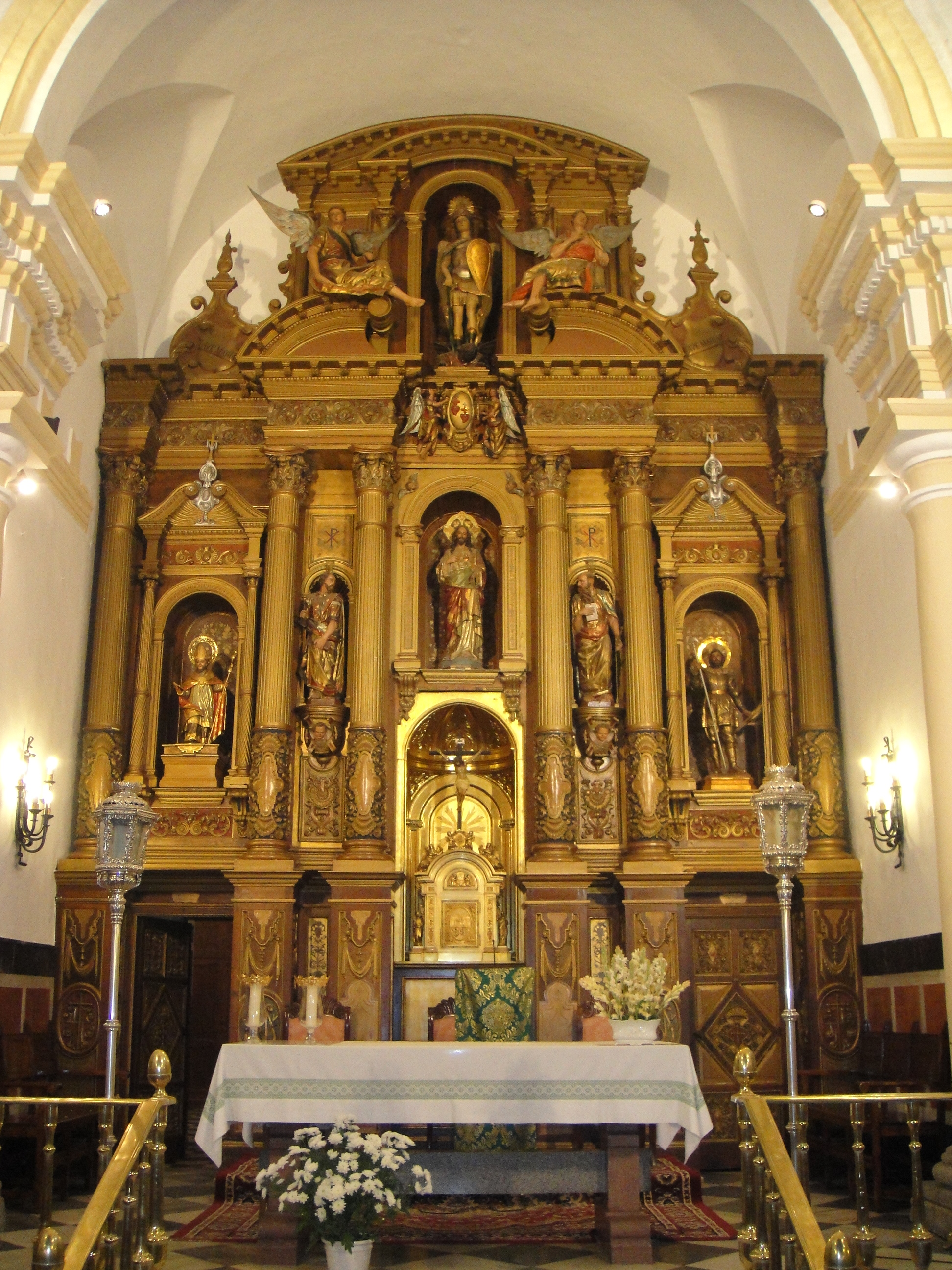 Church of St. Michael. Villanueva de Córdoba. (Spain).